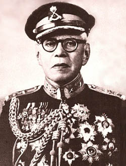 From [1]. This photograph shows the sultan in his later years. Thus this photograph is taken while Malaya was under the British, and is released under the following licence:PD-BRITISHGOV